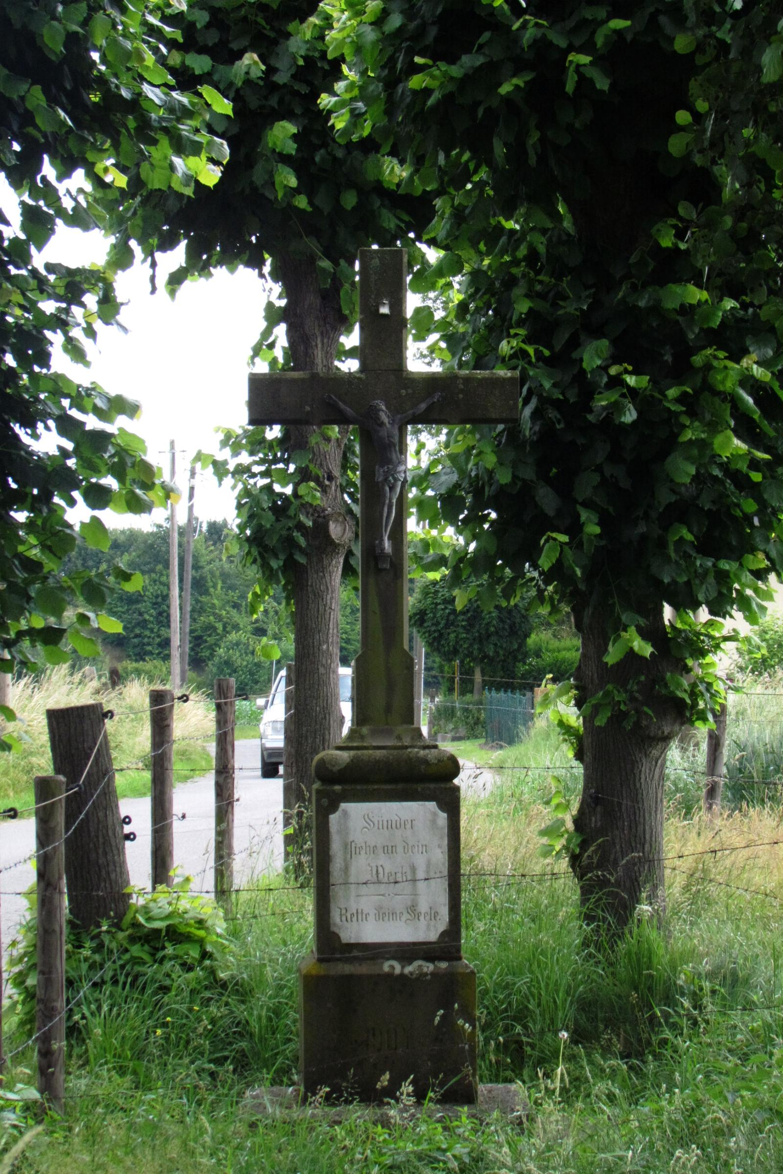 This is a photograph of an architectural monument.It is on the list of cultural monuments of Korschenbroich